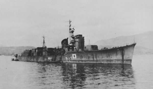 Japan Demobilization Agency Yoizuki